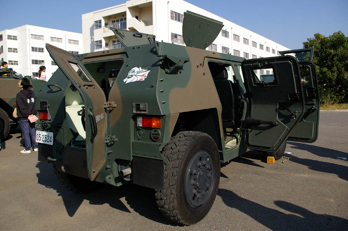 JGSDF Light Armored vehicle.In Matsudo,Japan. 軽装甲機動車 2007年11月18日、松戸駐屯地で撮影。空挺団の車両。